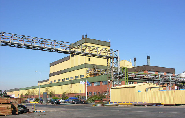 Vegetable Oil Refinery, King George Dock This refinery has expanded considerably since it was established in the mid-1980's, incoming semi-processed palm oil and other vegetable oils are transferred from ships via the overhead pipeline into storage tanks and thence through the refinery.